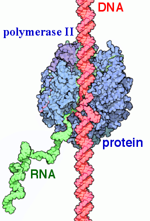 Transcription: An RNA Polymerase II Elongation Complex at 3.3 Å Resolution.